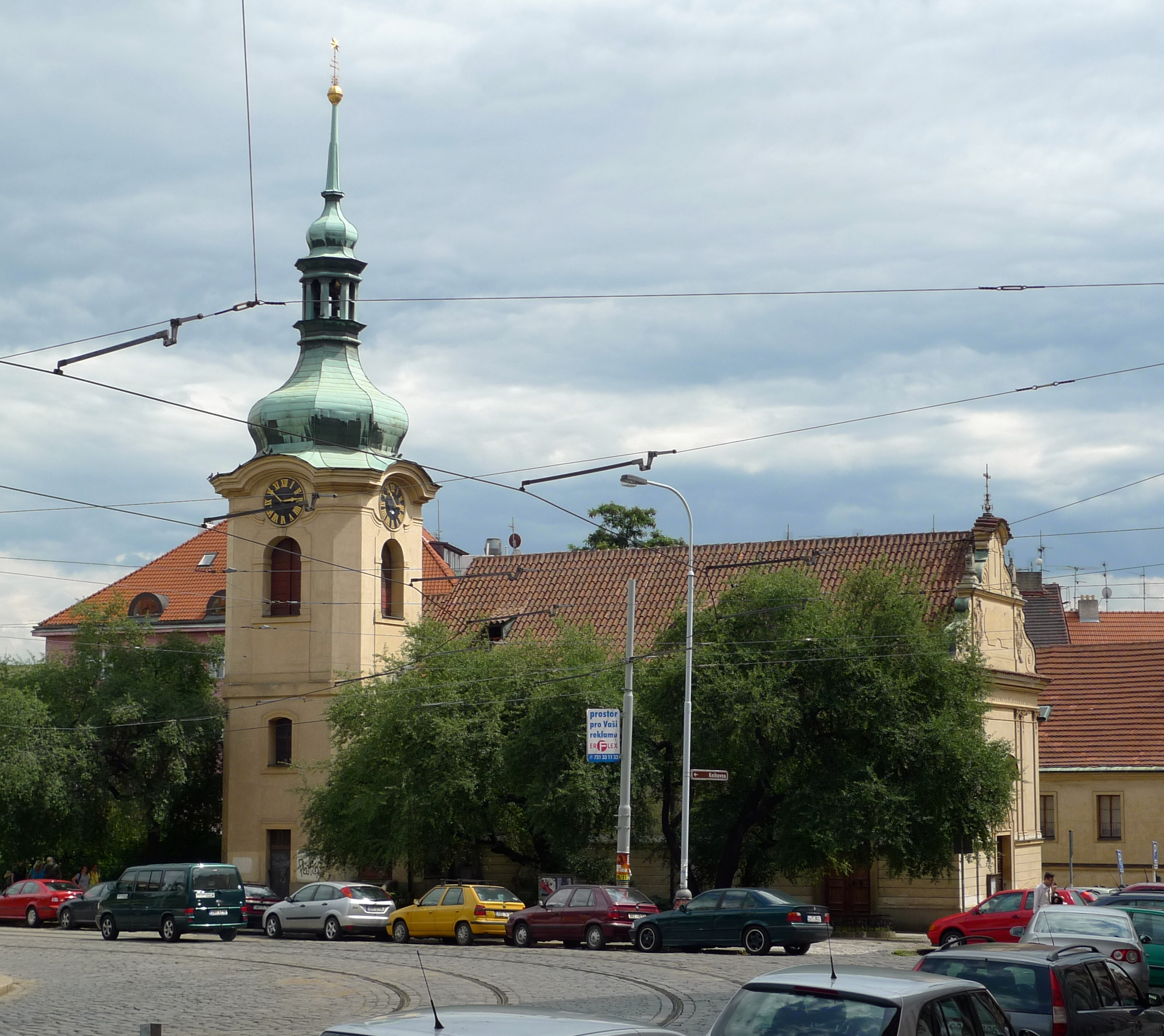 Church of Saint Nicholas (Prague-Vršovice) Česky: Kostel sv. Mikuláše v Praze-Vršovicích - pohled z Moskevské ulice